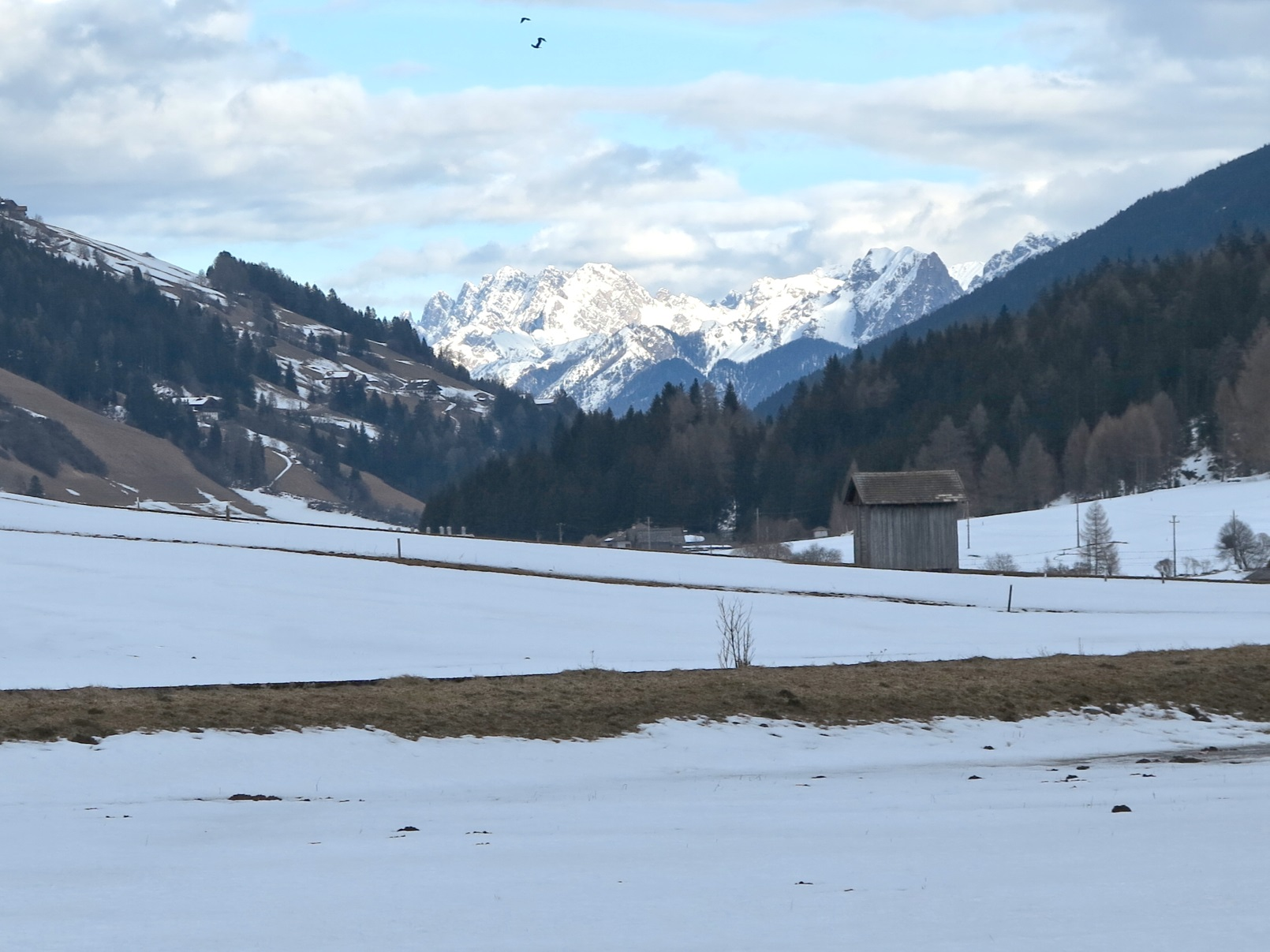 Hochpustertal (Upper Valley of Pustertal), View to East